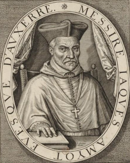 French bishop and translator Jacques Amyot (1513-1593) by Léonard Gaultier (1561-1641).